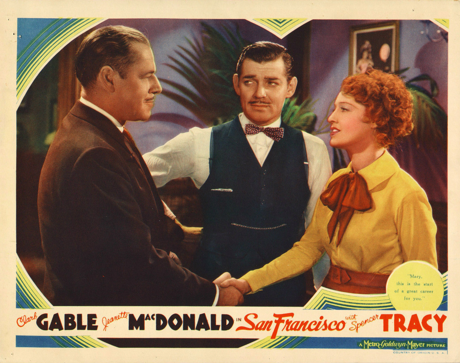 Lobby card for the 1936 film San Francisco.